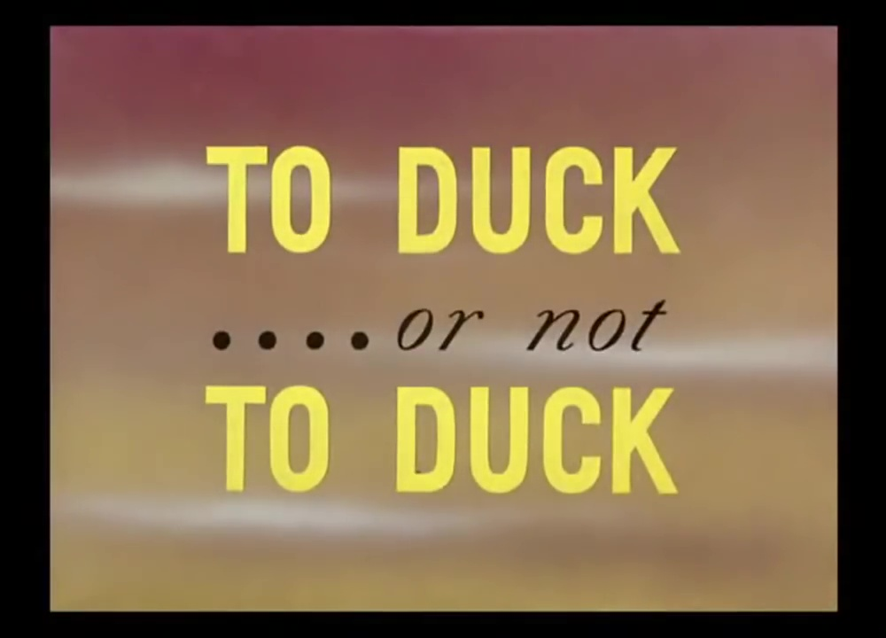 Screen capture of To Duck or Not to Duck, a 1943 Looney Tunes cartoon directed by Charles M. Jones, produced by Leon Schlesinger, and featuring Daffy Duck and Elmer J. Fudd. This screen capture is taken from a YouTube uploading of the cartoon in question by CC Cartoons, which offers high-definition restored versions of public domain cartoons with closed captions for distribution on YouTube. The video in question can itself be found here.